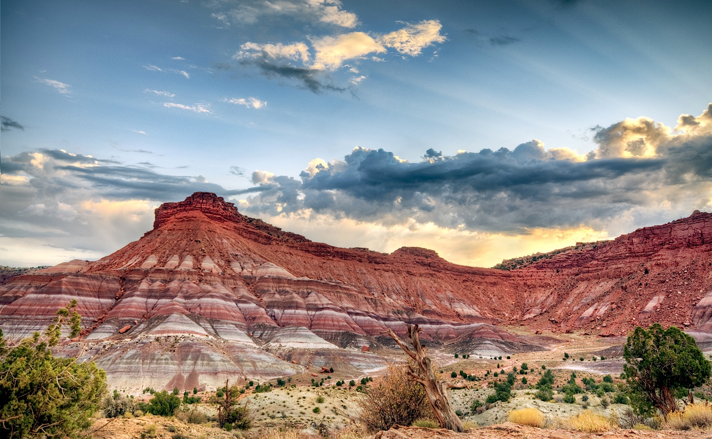 Old Paria (pa-ree'-a) was settled about 150 years ago along the Paria River. After a few decades of existence, the town was wiped out by a series of devastating floods. In the 1960s a movie set was constructed in front of the colorful mesas, creating a picturesque setting for photographers until the set was washed away by a flood in the 1990s. A group of volunteers reconstructed some of the buildings, but they were razed by an arsonist in 2005. So now the area has reverted to its natural beauty. All that remains of human habitation is the cemetery and a small campsite. I spent the first night of my Zion trip there, alone.